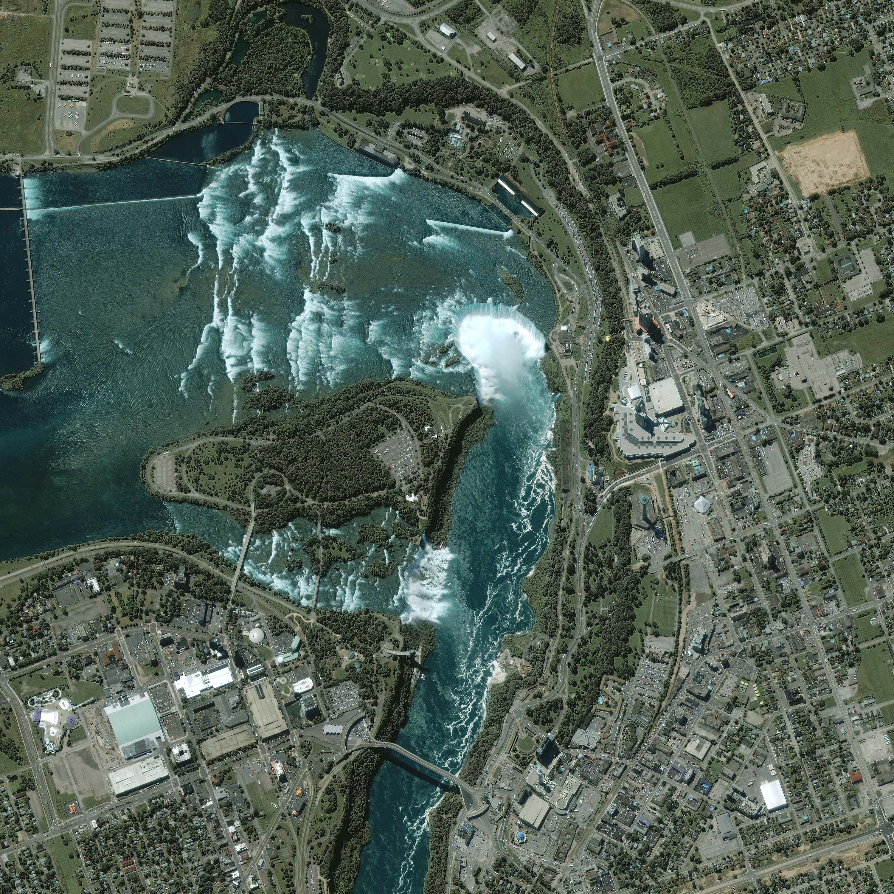 A blue-green veil of water tumbles 51 meters over the rocky precipice of the Niagara Falls in this Ikonos image, acquired on August 2, 2004. Every second, more than two million liters of water plummets over the half-circle of the Canadian/Horseshoe portion of the Niagara Falls, shown here, making it one of the world's largest waterfalls. The force of the pounding water is sending a cloud of mist up from the bottom of the falls; this same force eats away at the rock behind the falls, pushing them back as much as two meters per year. Niagara Falls is actually made up of three different falls, the most famous of which are shown in this image. The Niagara River, the narrow strait that connects Lake Erie to Lake Ontario, forks around Goat Island, seen in the lower left corner of the image. The main portion of the river is pushed over the Canadian/Horseshoe Falls, but the diverted water tumbles down American Falls and Bridal Veil Falls farther downstream. All three falls that make up Niagara Falls are visible in the large image. As the names of the individual falls suggest, the river and the falls mark the boundary between the United States and Canada. NASA Identifier: niagarafalls_IKO_2004215